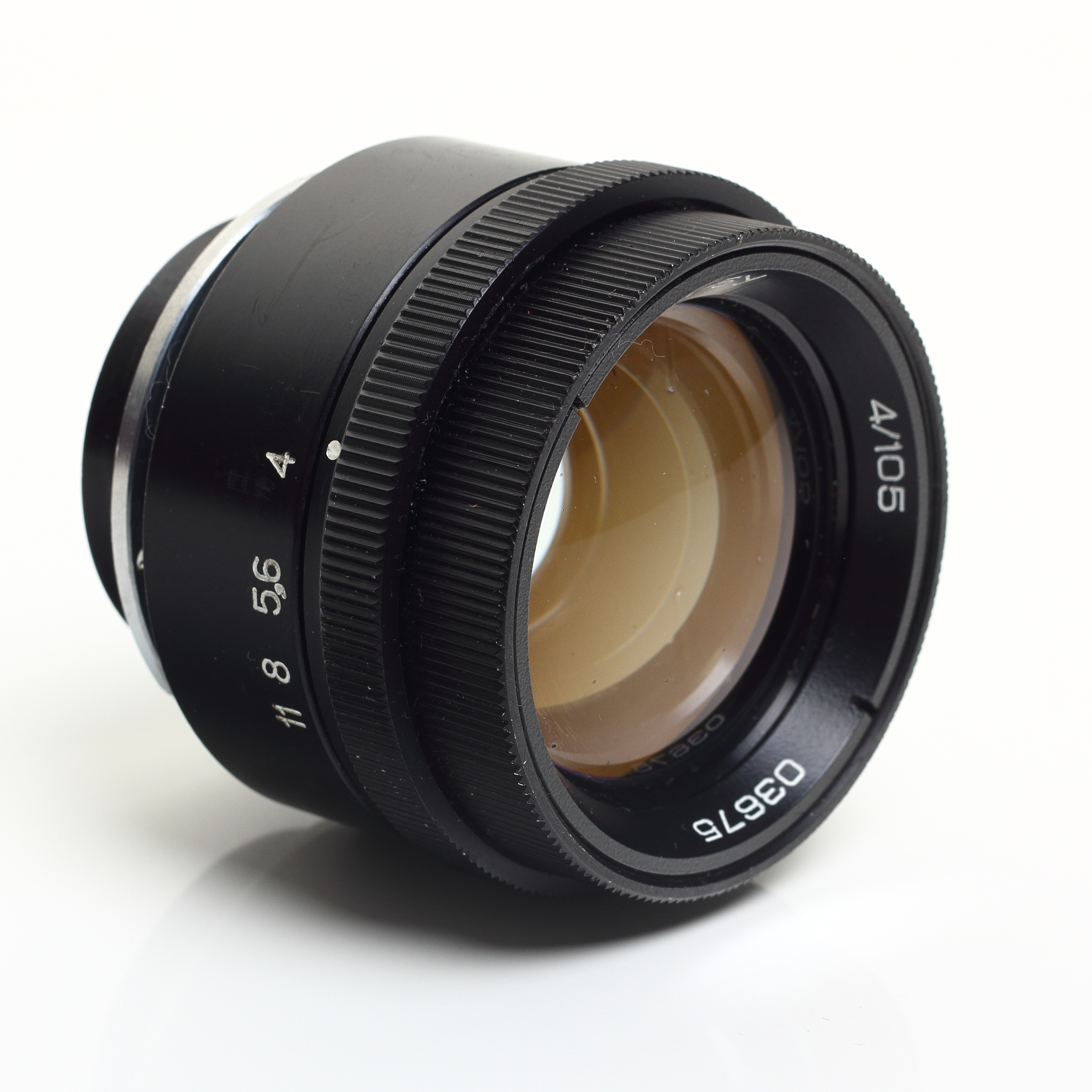 lens enlarger "Vega-5u"